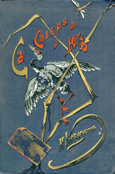 Bookcover of his book From North to South: mamoirs of an old stork, 1899